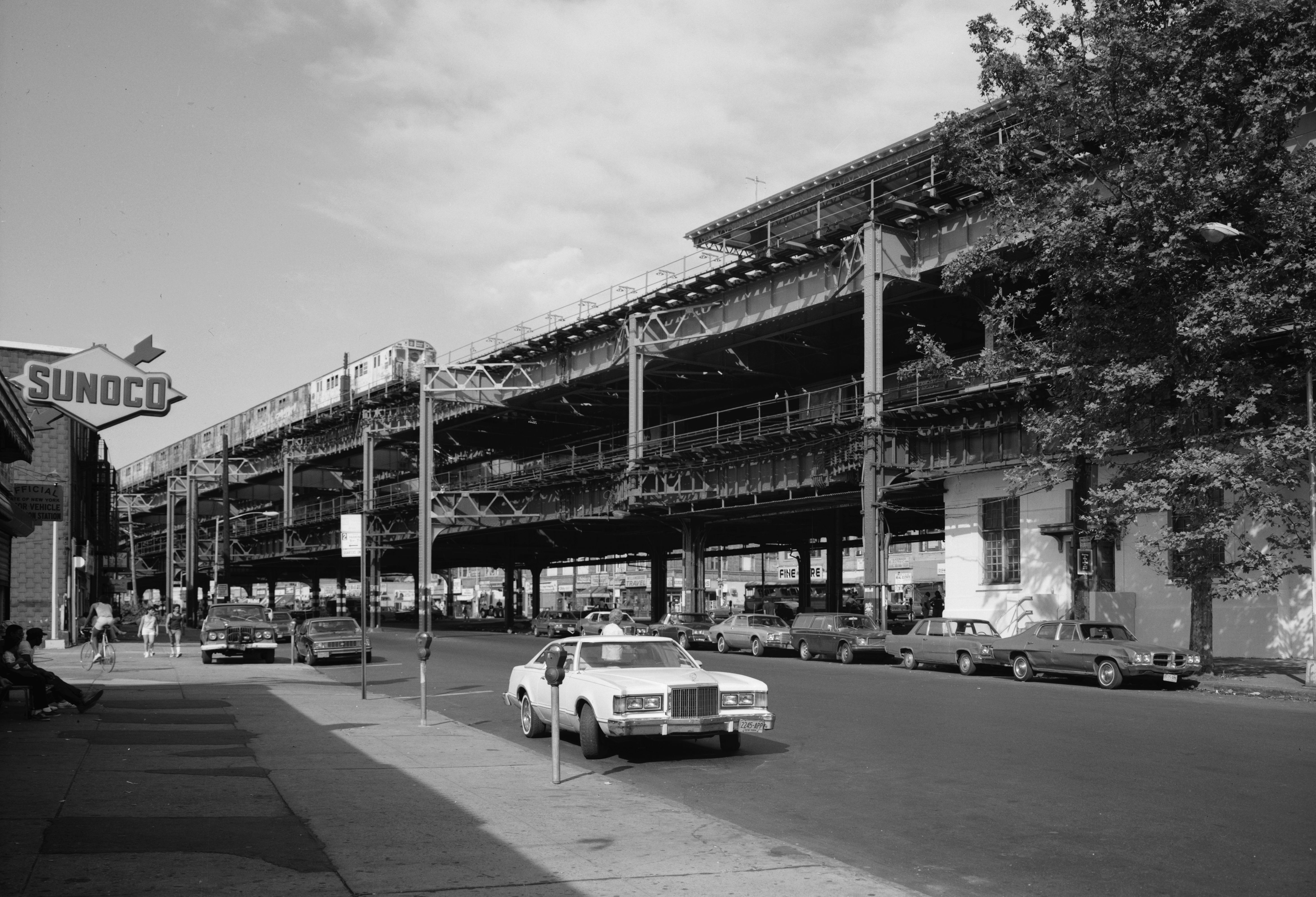 Gun Hill Road station on the IRT White Plains Road Line (and on the IRT Third Avenue Line) in 1984.This two-level station was built during the Dual Contracts when both lines were lengthened northwards over their former terminals at 180th Street. Hence the IRT White Plains Road Line occupies the upper level of the station while the Third Avenue Line's tracks were on the lower level. As the White Plains Road Line was called a subway and the Third Avenue Line was a member of the IRT's Elevated Division, this resulted in a situation where a subway was above an el.